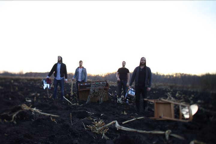 Press photo of The Felix Culpa taken at the video shoot for their song "Our Holy Ghosts"